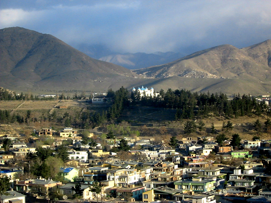 Bagh-e-Bala is Kabul City's main picnic spot. Category:Images of Afghanistan